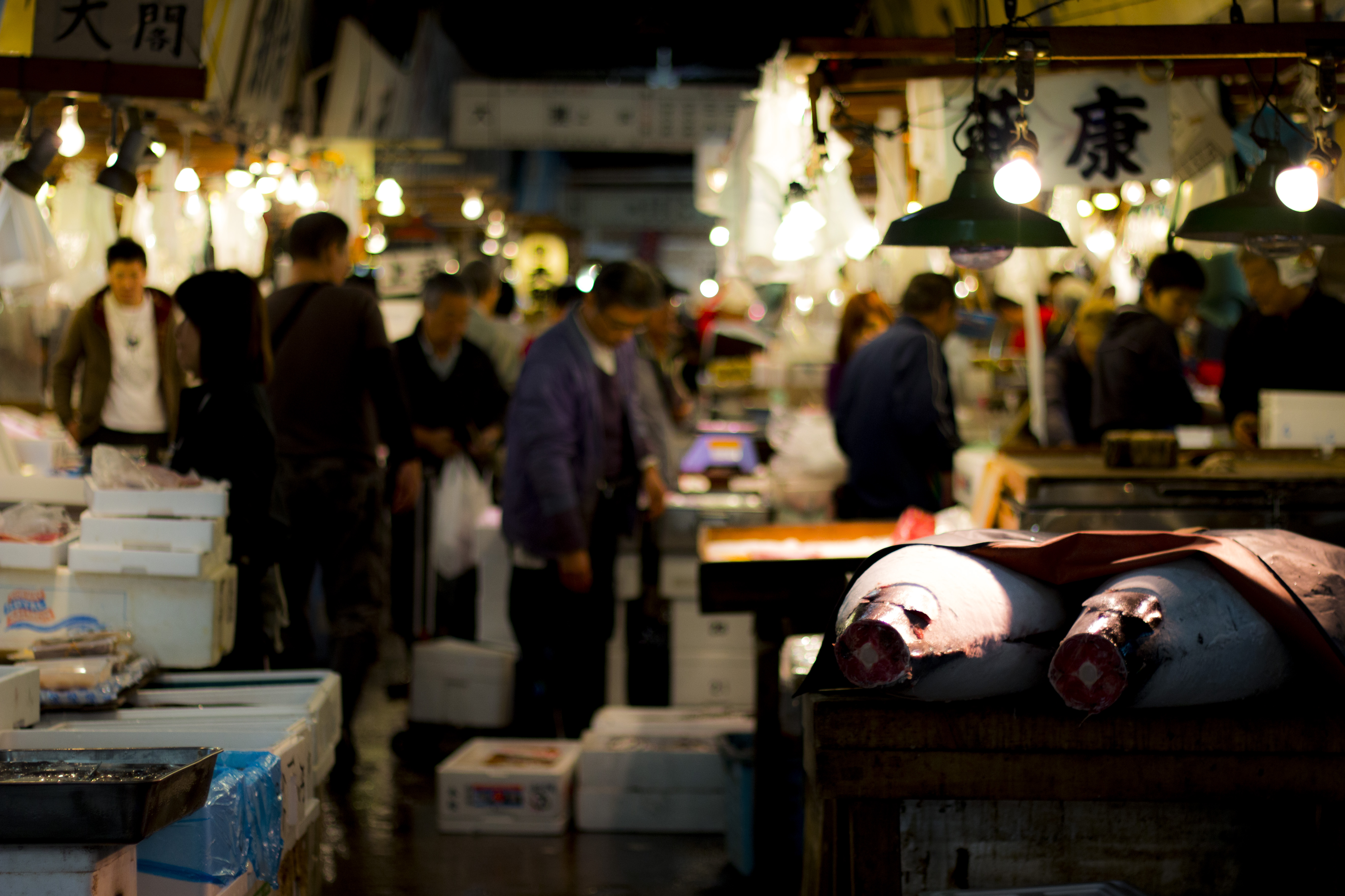 Tsukiji Fish Market in Tokyo has become one of the main tourist attractions of the city.